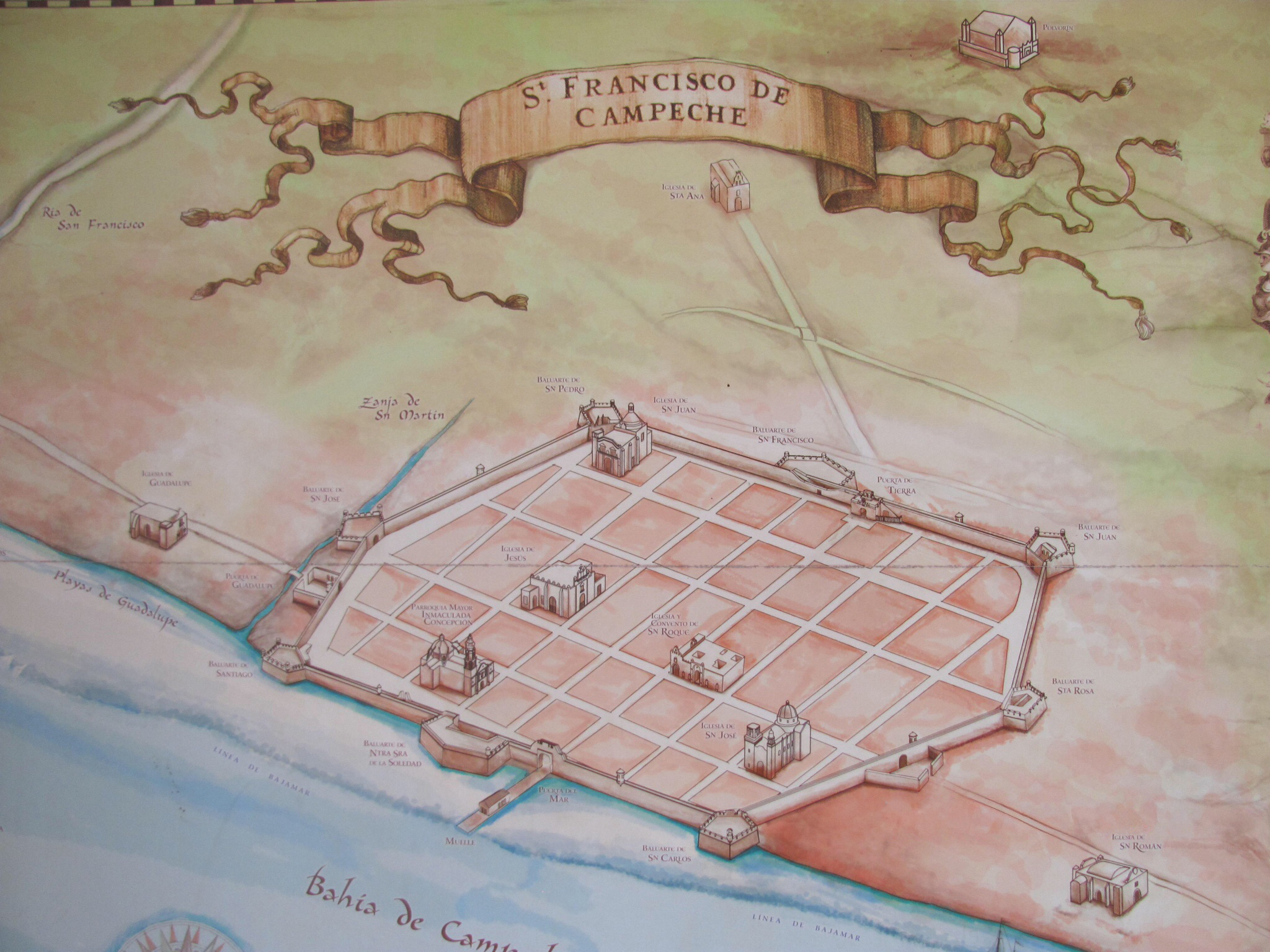 Campeche plan of historic city